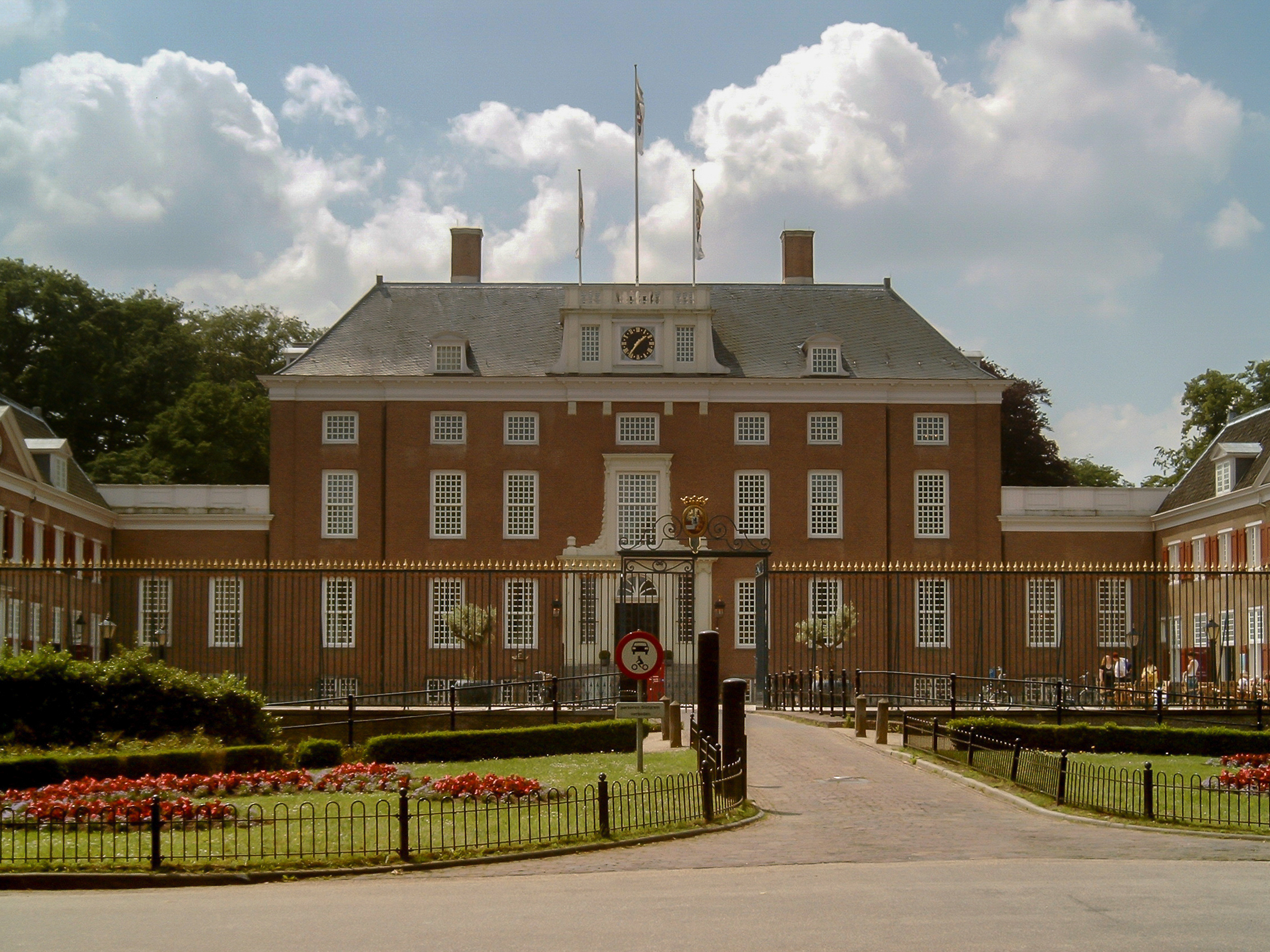 Zeist, castle: Slot Zeist